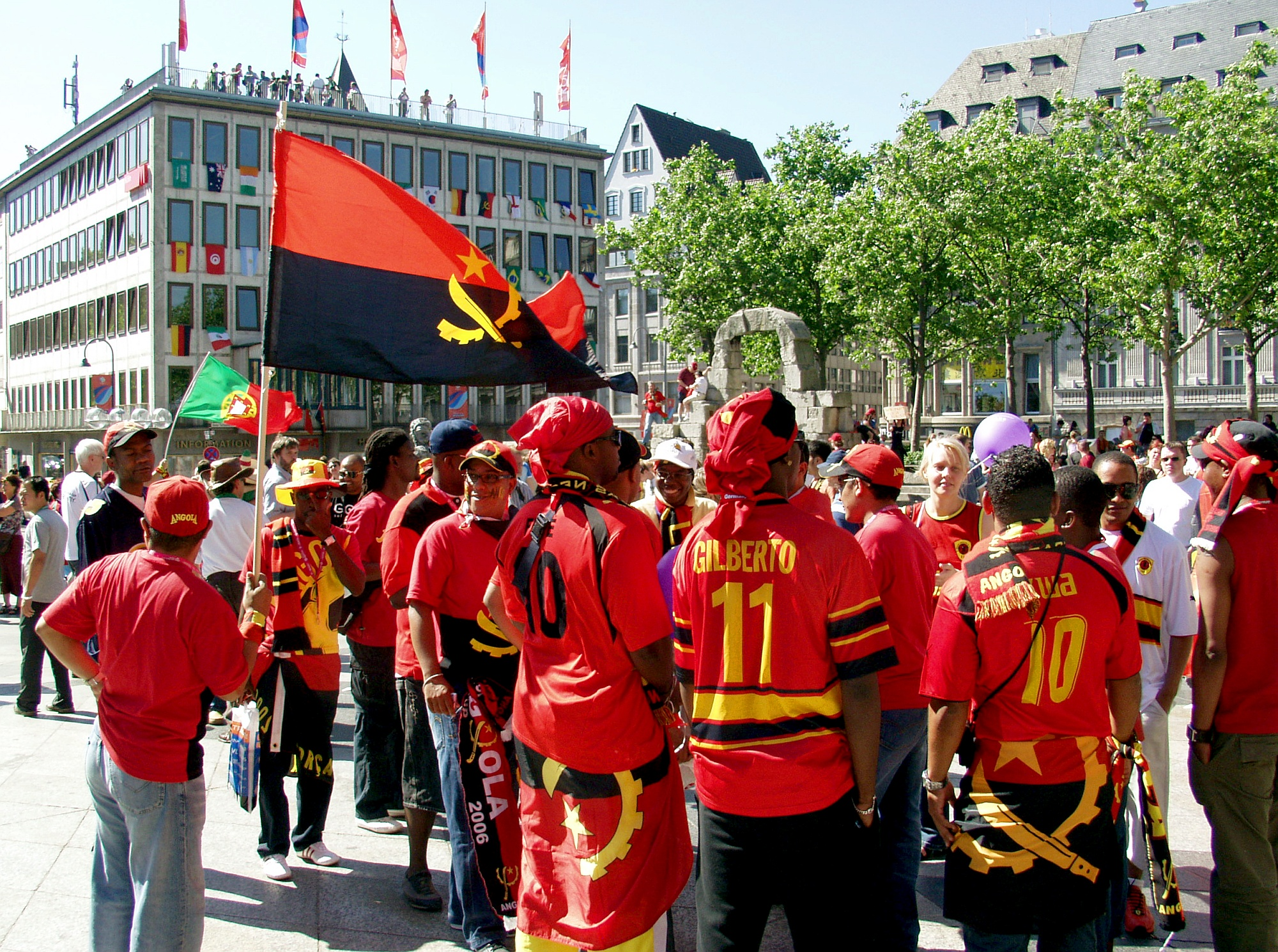 Fans of the Angolan national football team in Cologne, in front of the Cologne Cathedral.